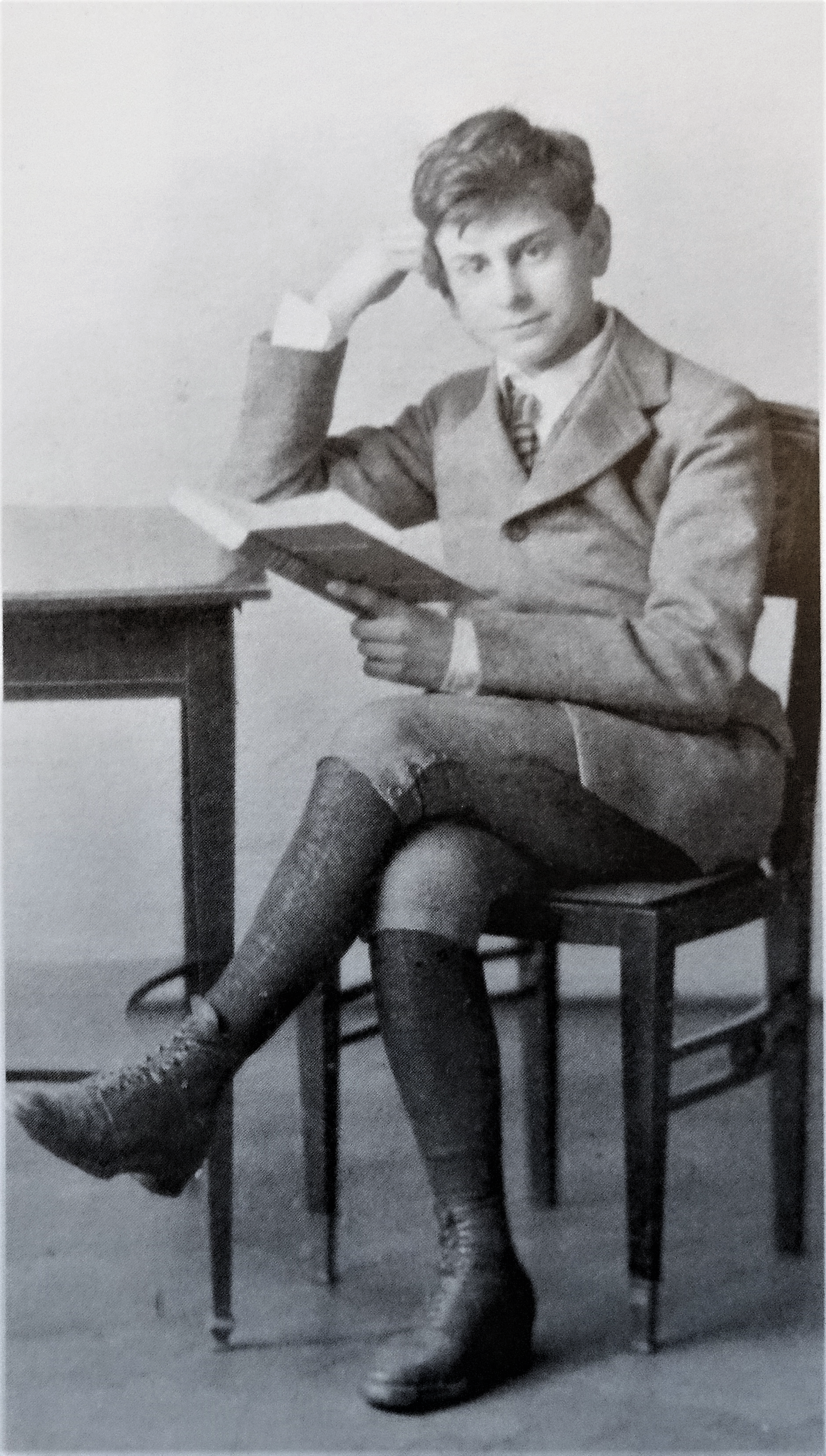 Karl Popper fifteen years old